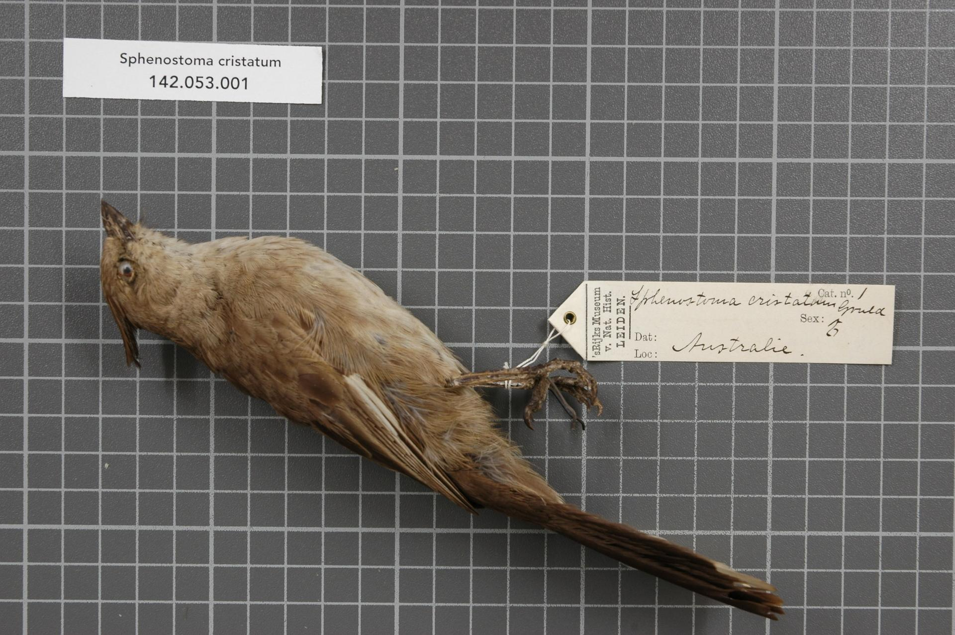 Sphenostoma cristatum Gould, 1838